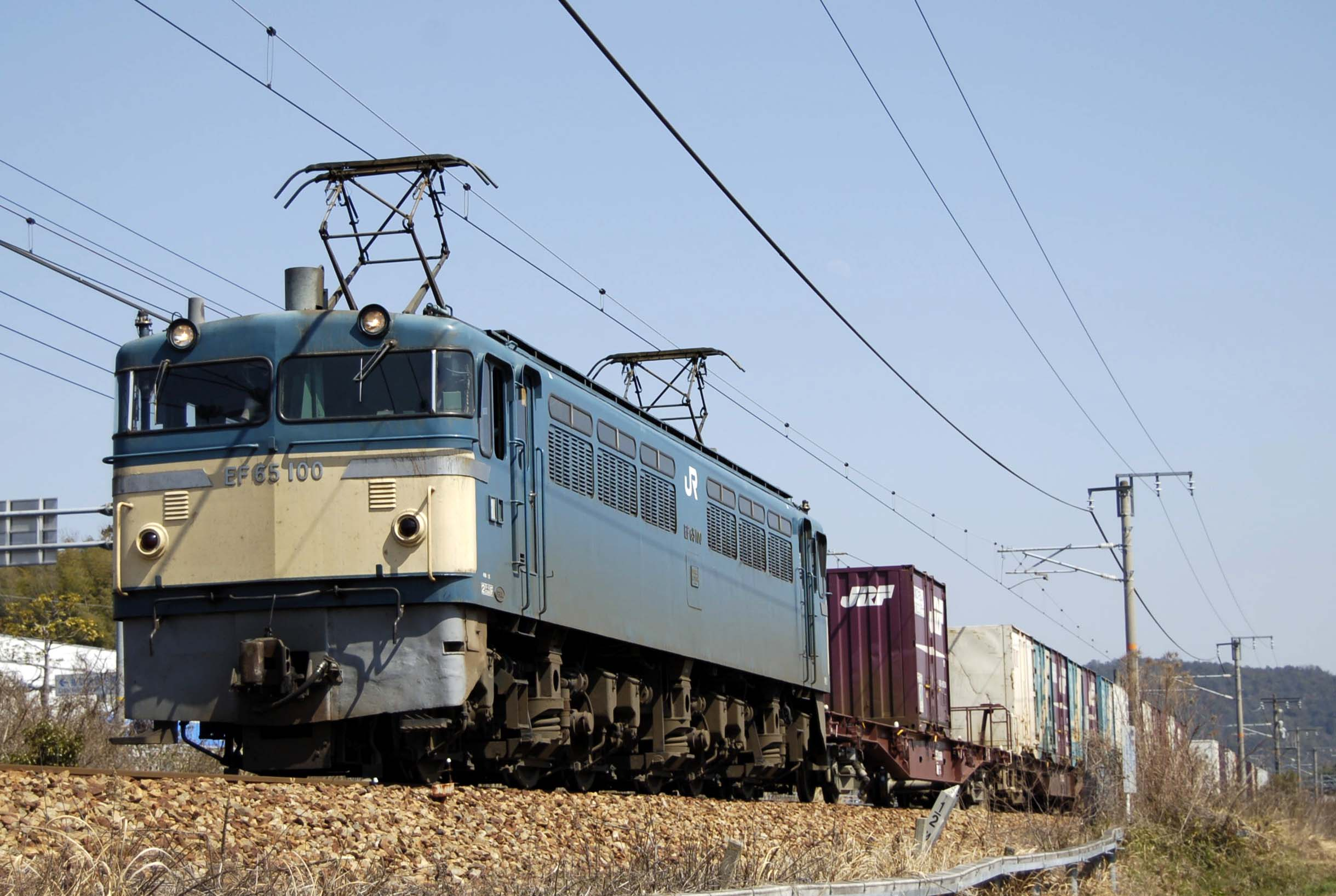 JR Freight EF65 type electric locomotive, JNR color. コンテナ貨物列車を牽引する国鉄色のEF65一般型、100号機。山陽本線龍野-相生間にて。